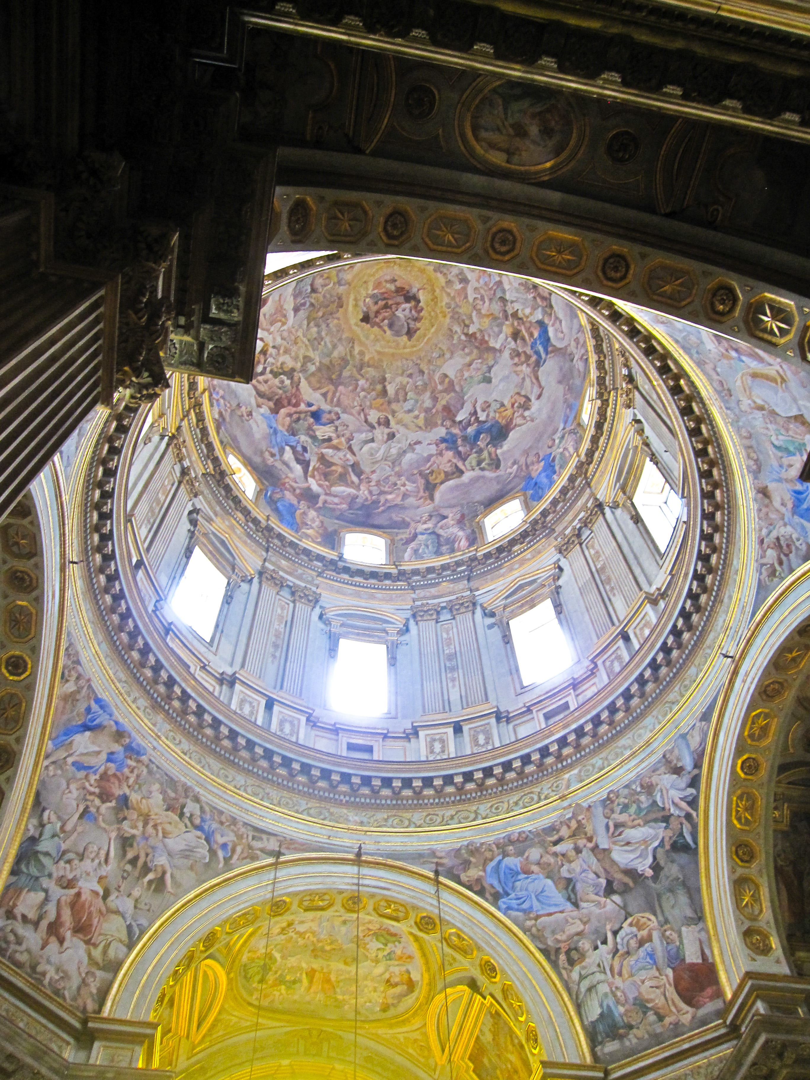 Naples Cathedral - Chapel of the Treasure of San Gennaro (view of the dome frescoes painted by Domenichino)